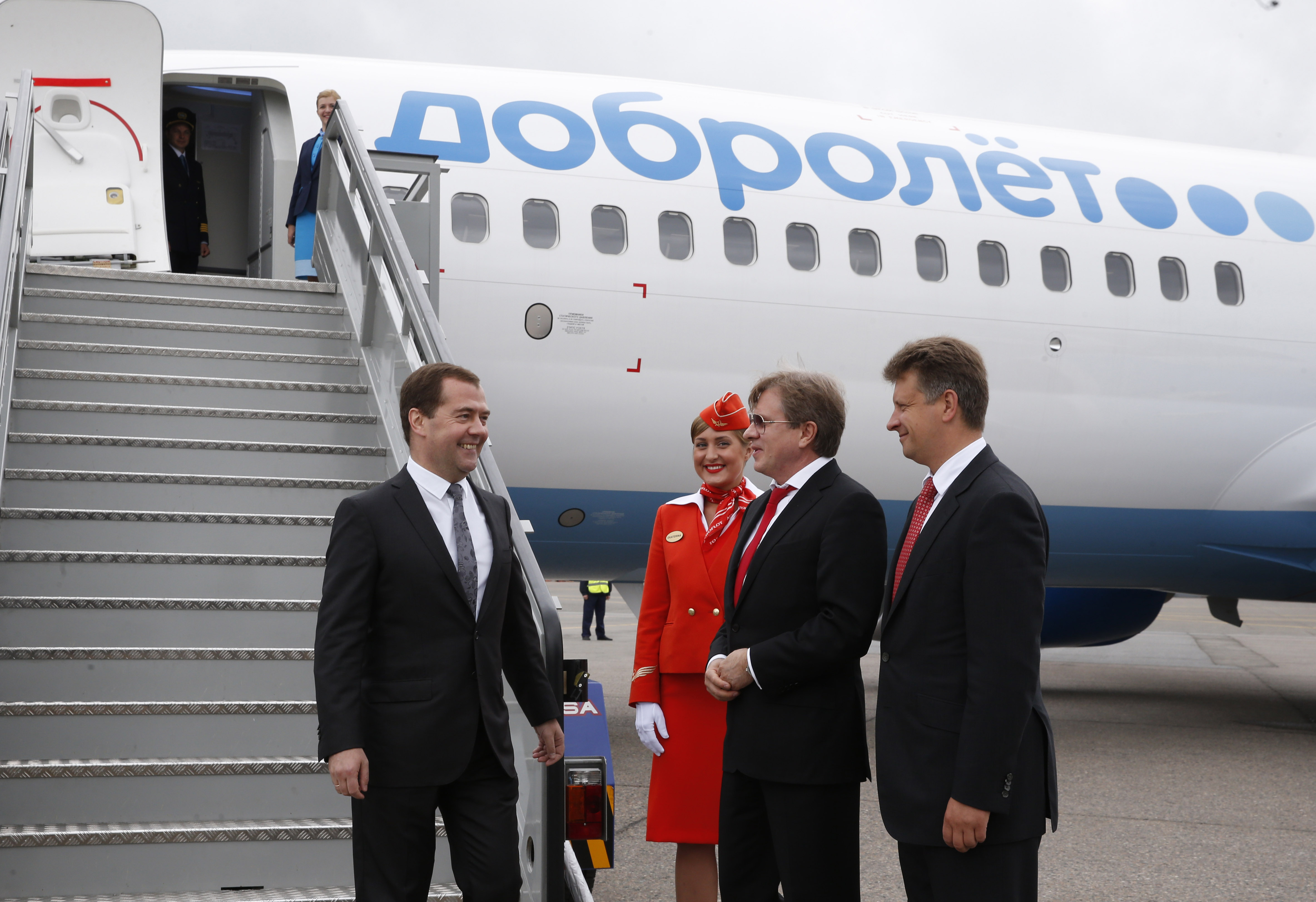 The Prime Minister has met with the first passengers of Dobrolet and inspected the Boeing 737-800 liner that made the low-cost carrier’s first Moscow-Simferopol flight.